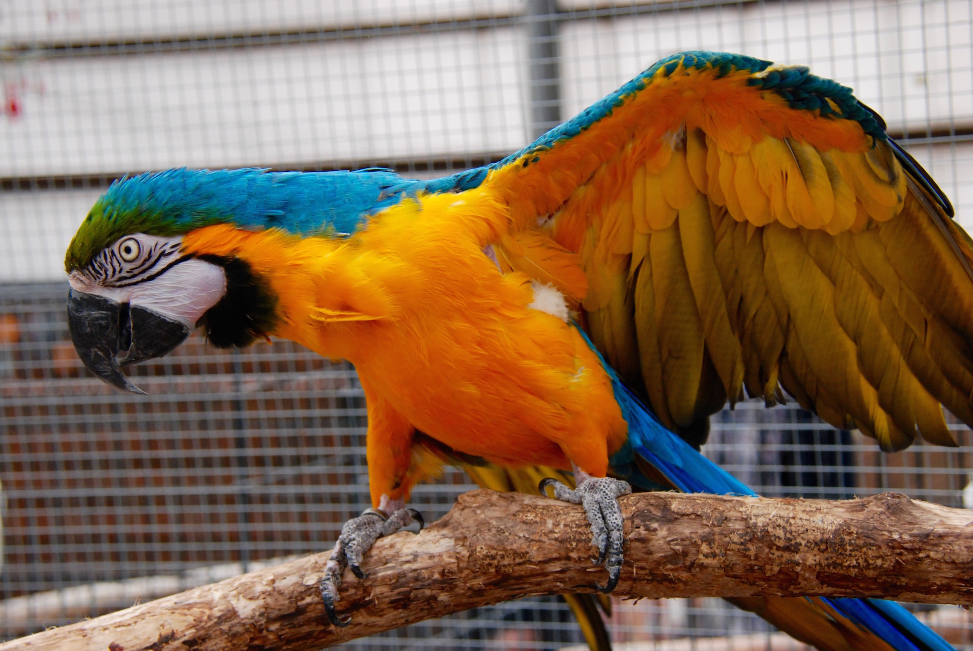 Ara ararauna in a Japanese bird zoo